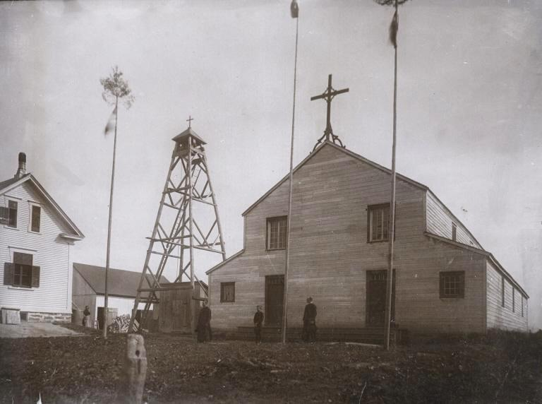 Photograph, Chapel of St. Ignace de Loyola, Ile St. Ignace(?), QC, between 1895 and 1900, Silver salts on paper mounted on card - Gelatin silver process - 15.2 x 20.2 cm